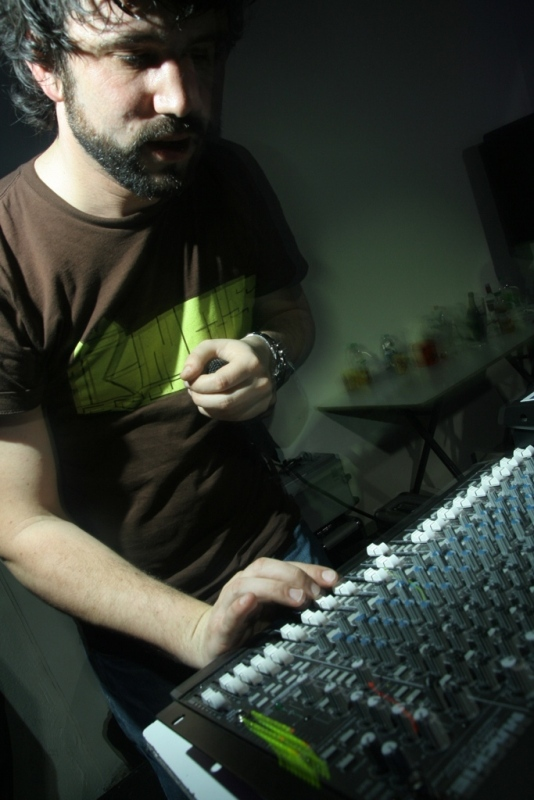 Zombie Nation live at Studio 88 in Aix en Provence